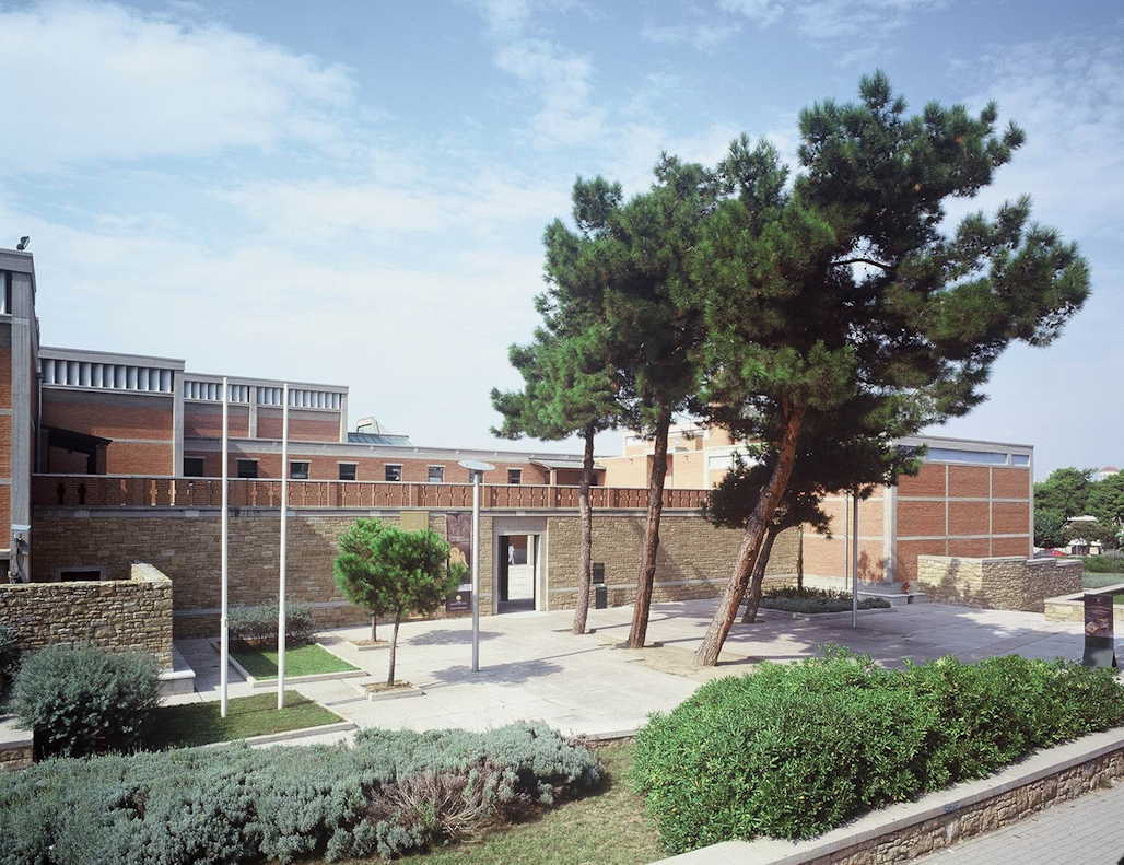 Front view, image from the Museum of Byzantine Culture, Thessaloniki, Central Macedonia, Greece